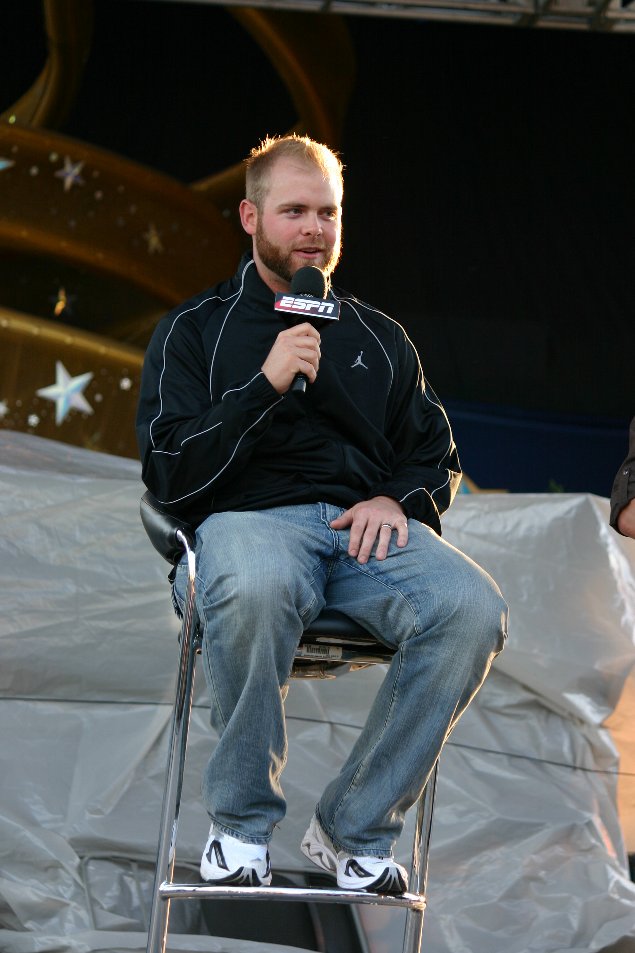 Brian McCann answering guest questions on the Sorcerer Hat Stage at Disney's Hollywood Studios during ESPN the Weekend, February 26, 2010.